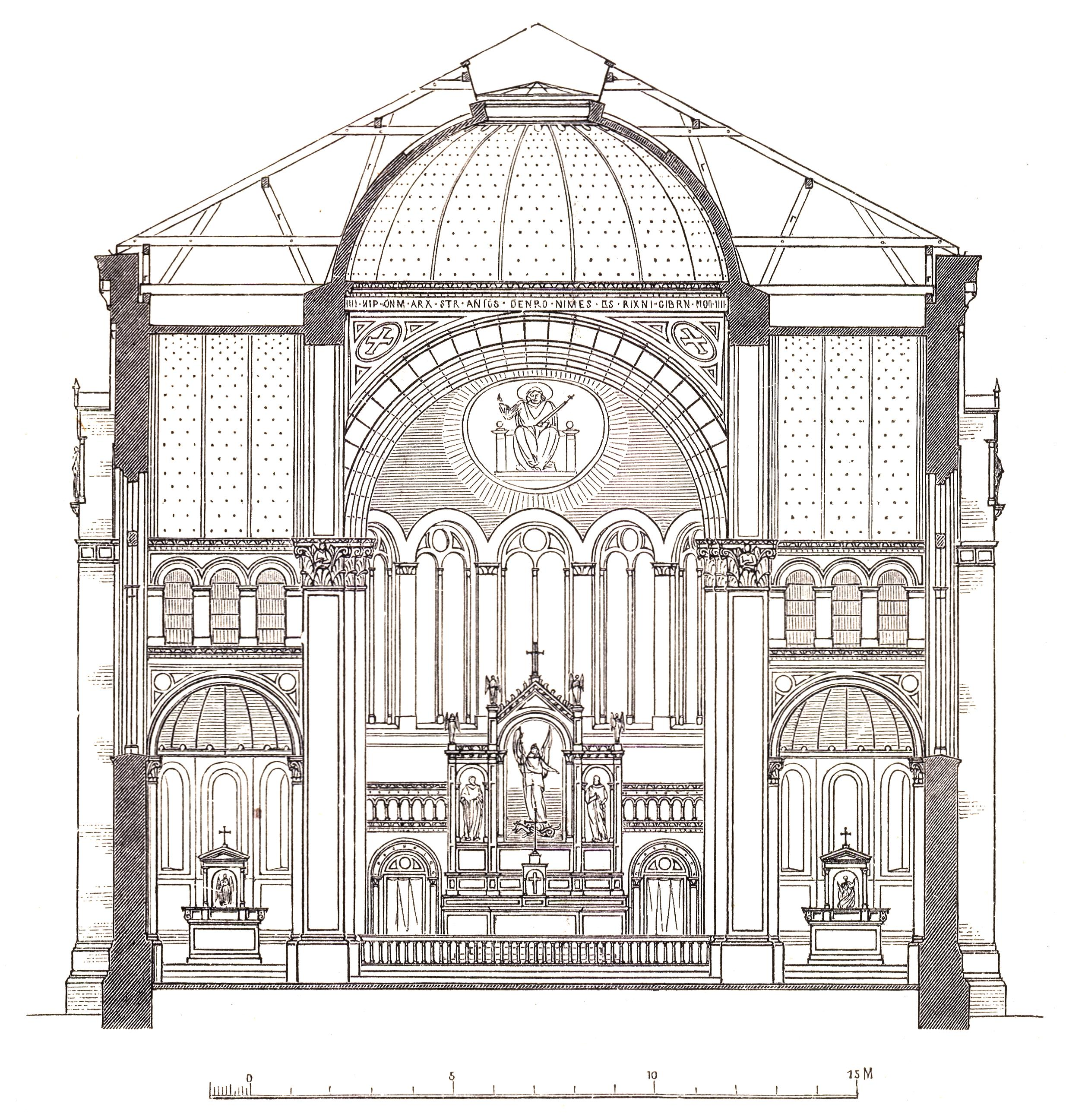 Berlin - St. Michaelskirche, section